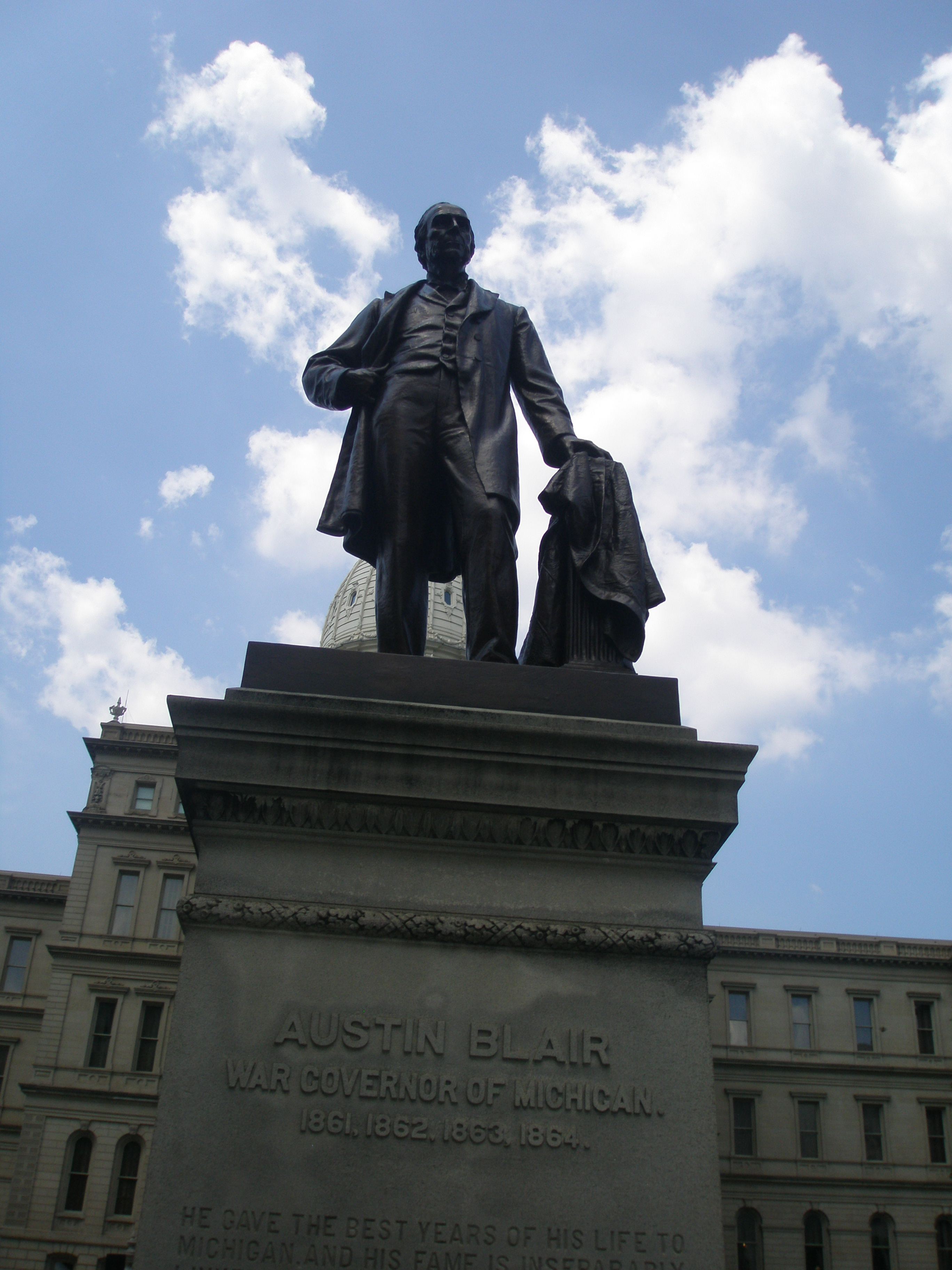 Statue of Governor Austin Blair, Michigan State Capitol, Lansing, MI.